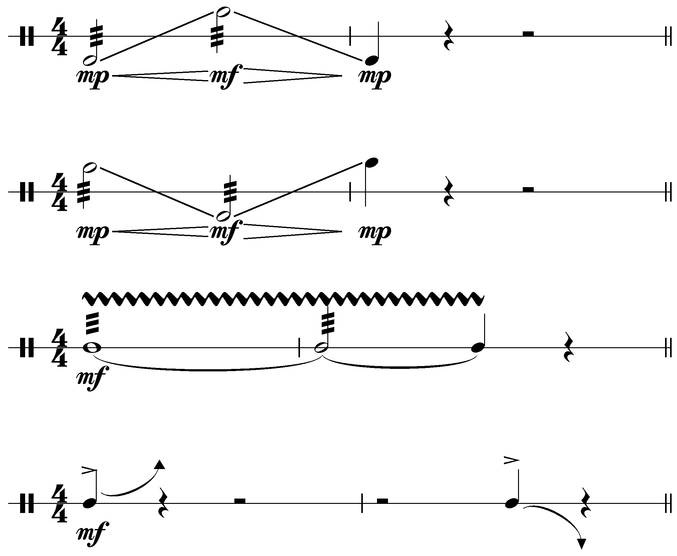 Flexatone notation according to guidelines. Rolls indicate shaking, lines indicate glissando direction. Chevrons indicate alternating thumb pressure (a glissando up and down). If the instrument is played with it's knobs removed, mallet strikes are indicated by single notes and glissando direction by curved arrow lines (similar to guitar tab pitch bend notation). Probably due to it being notorious difficult to control, it is recommended that pitch designation always be approximate.